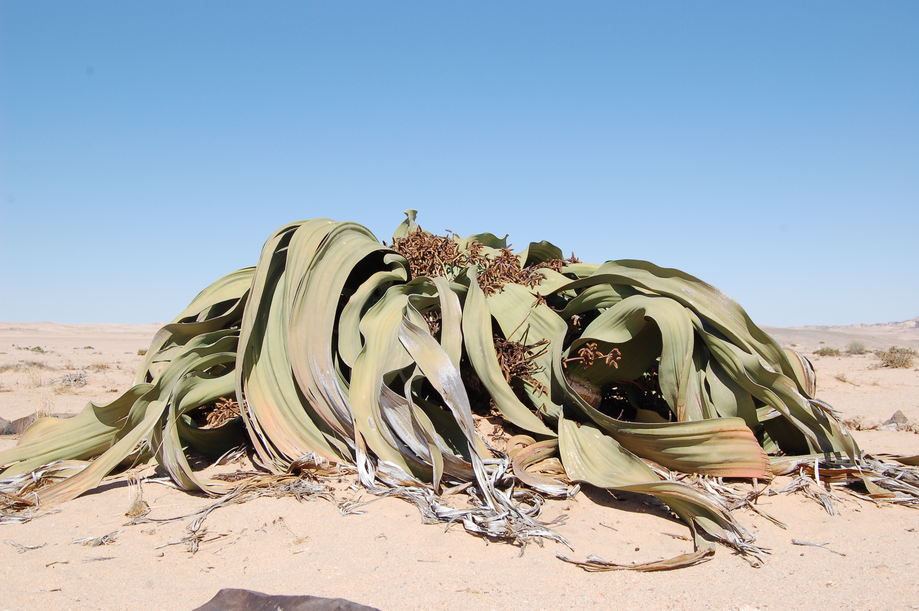 Welwitschia mirabilis, Naukluft, Namibia